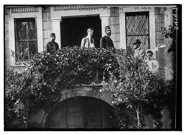 Photograph shows diplomats from the Ottoman Empire (Huseyin Hilmi Pasha), Russia (Mikhail Nikolayevich von Giers), and the Austro-Hungarian Empire (Consul Kirchknopf) standing at the entrance to a building. Photograph was published with the New York Times, Dec. 22, 1912 article called "The Attitude of Austria in the Eastern Question."